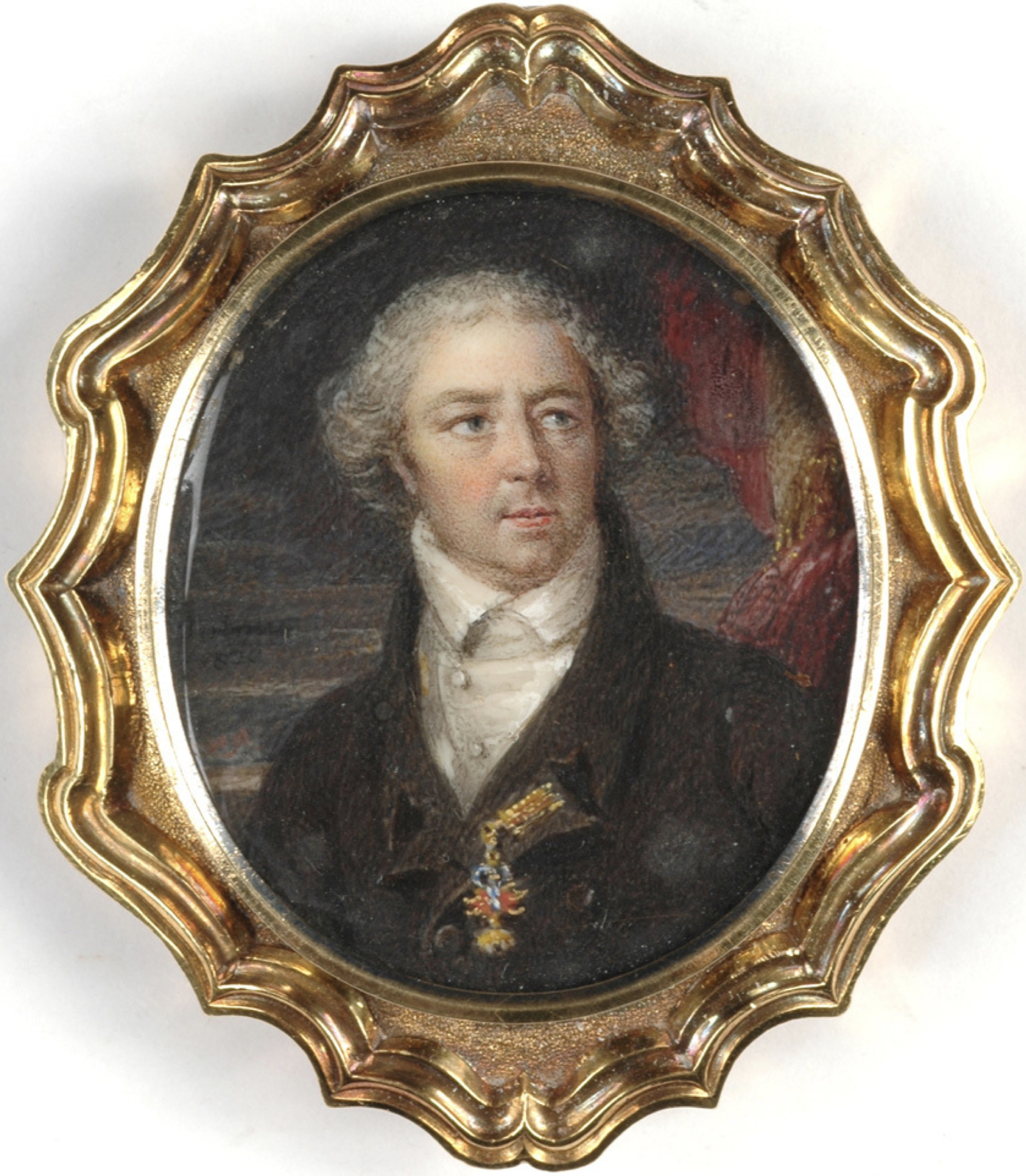 Carl Hummel, portrait of Prince Karl Alexander of Thurn and Taxis, miniature, watercolor and gouache on ivory, 1809